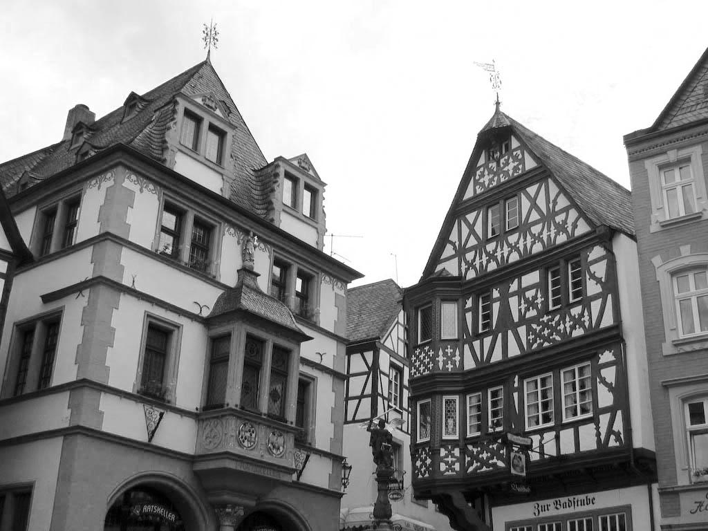 image processing illustration, before Otsu algorithm (depiction of some buildings in Bernkastel, Germany)